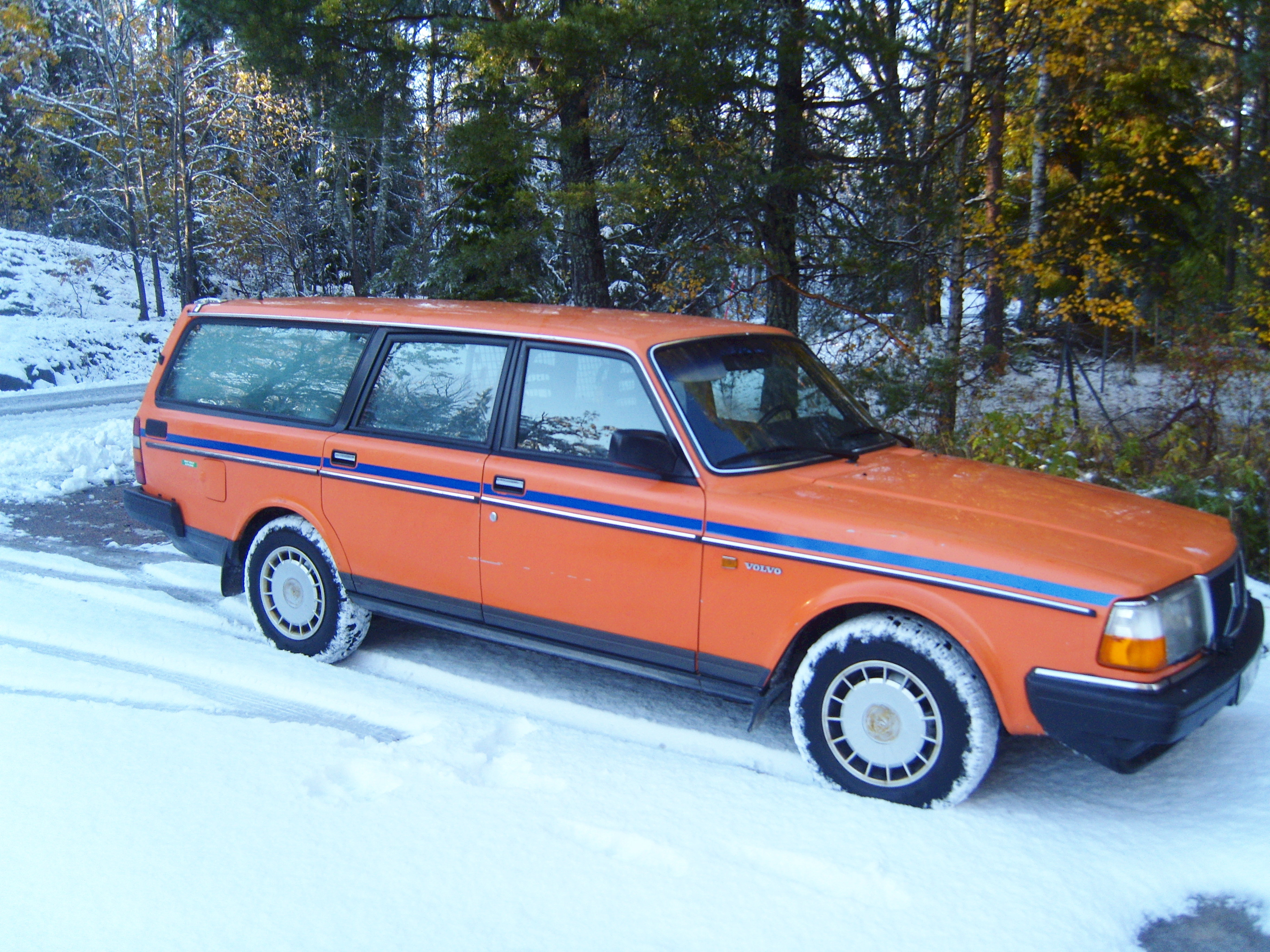 A Volvo 245 GL van from 1988. Former service vehicle of Televerket (the former national telecom utility in Sweden) in their characteristic hi-vis orange livery. Note the safety bars behind behind the front seats, this car lacks rear seats and is legally a 'light commercial vehicle' or a truck/van.